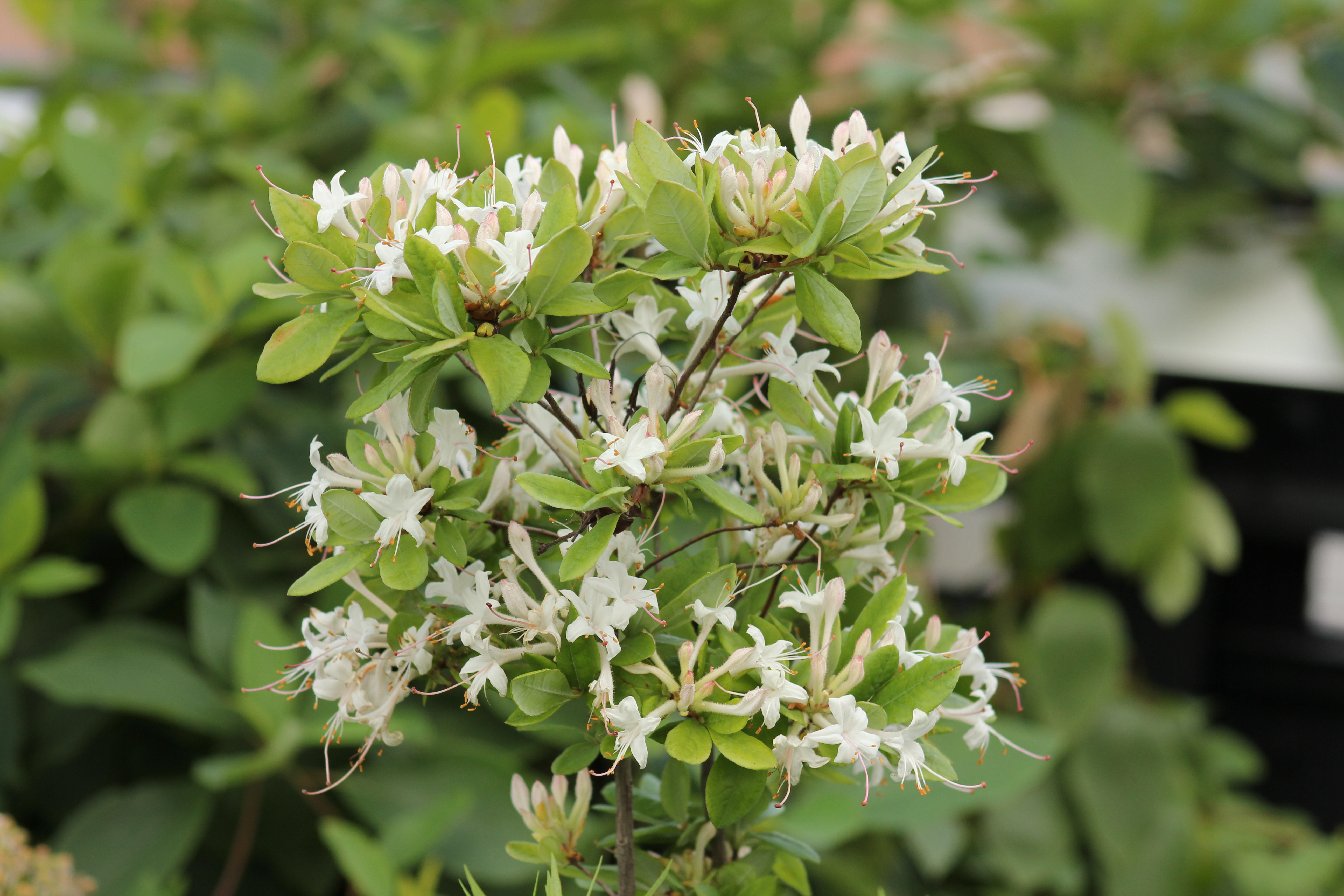 The HIGH LINE PARK in Chelsea Neighborhood above 10th Avenue and West 27th Street in Manhattan / New York City, NY on Monday afternoon, 18 June 2012 by Elvert Barnes Photography Philip A. and Lisa Maria Falcone Flyover Rhododendron Viscosum, Swamp Azalea Visit The High Line Park website at Visit Elvert Barnes 18 June 2012 ART TAKES TIMES SQUARE docu-project at